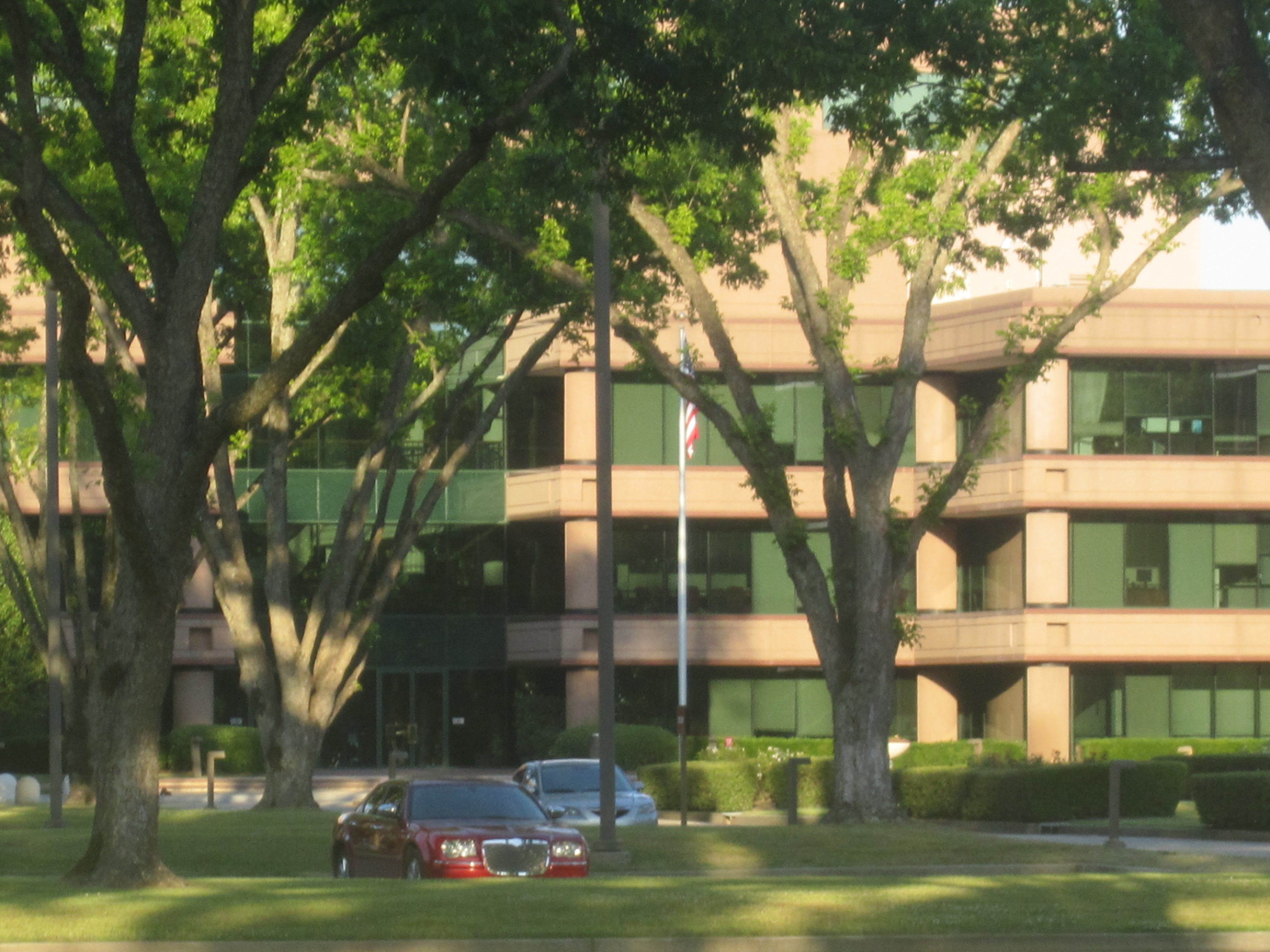 I took picture of Century Link corporate headquarters in Monroe, LA, with Canon camera.